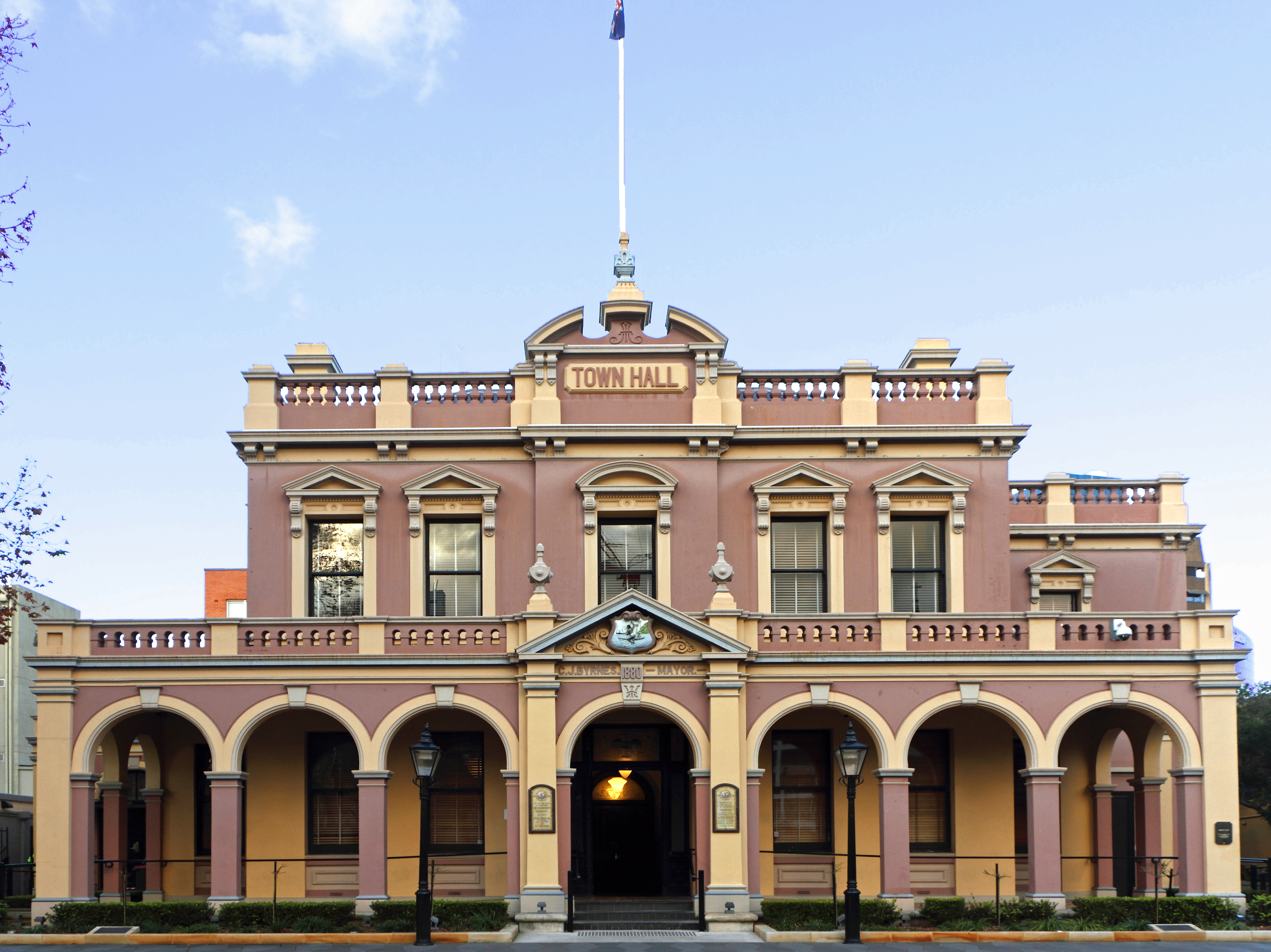 Parramatta Town Hall is a heritage-listed two-storey building in Victorian Free Classical style, built in 1880.